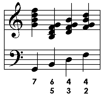 Created by the author to illustrate figured bass notation of chord inversions.